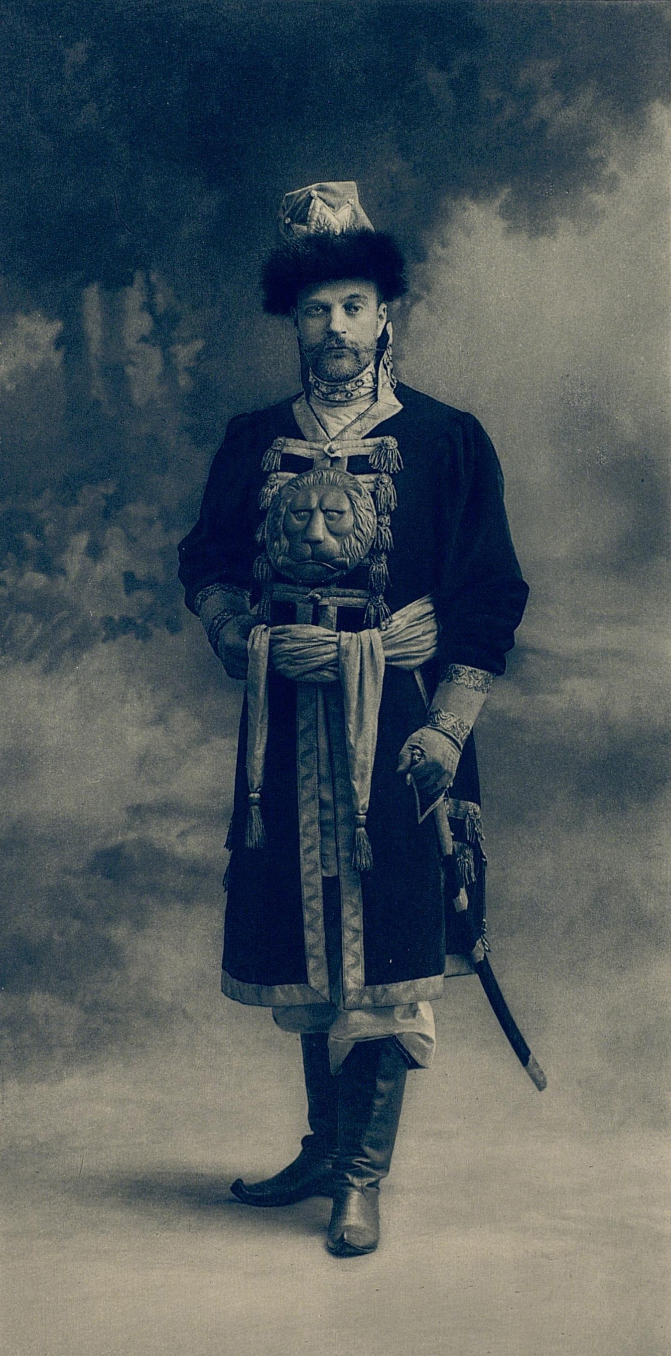 Duke Charles Michael, Prince of Mecklenburg-Strelitz